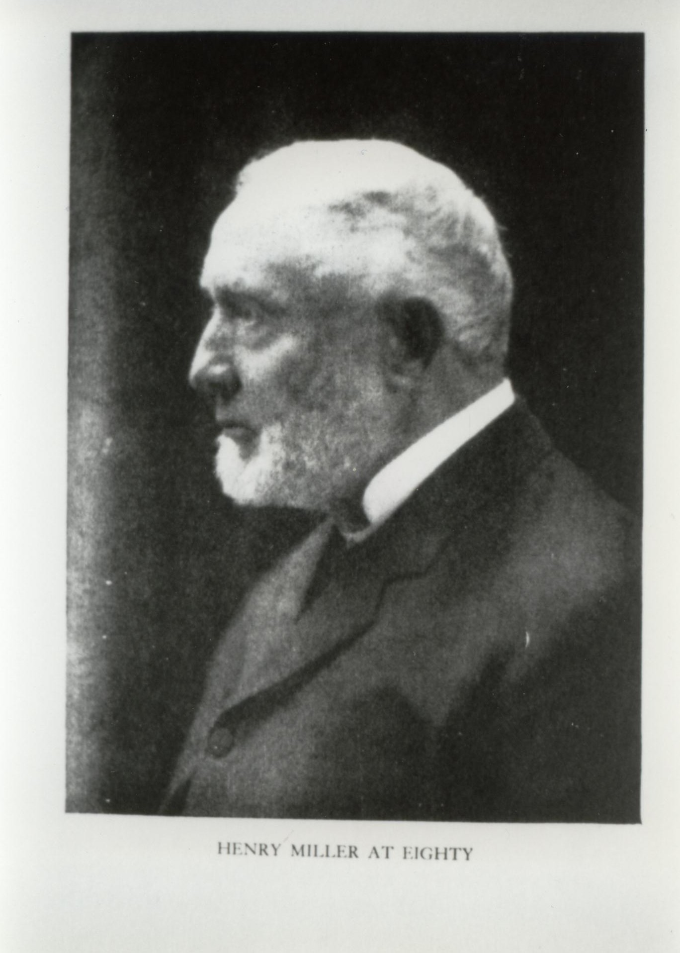 Henry Miller about 1907.